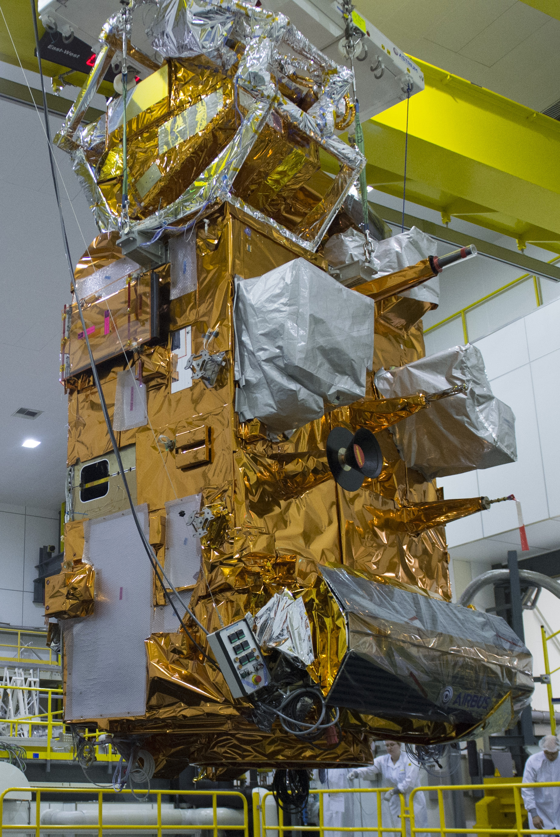 MetOp-C lowered into LSS The payload module of MetOp-C, Europe’s latest weather satellite, being lowered into Europe’s largest vacuum chamber, the 10 m-diameter Large Space Simulator. The LSS is part of ESA’s Test Centre in the Netherlands, the largest facility of its kind in Europe, providing a complete suite of equipment for all aspects of satellite testing under a single roof. MetOp-C’s MetOp-C’s instruments must be tested in space-like vacuum conditions. High-performance pumps will remove all air within the chamber to create an orbital-quality vacuum. Meanwhile, liquid nitrogen will circulate through the black walls to mimic the cold of sunless space. MetOp is a set of three polar-orbiting satellites whose temperature and humidity observations from a relatively close 800 km-altitude orbit have sharpened the accuracy of weather forecasting. Procured by ESA for Eumetsat, the European Organisation for the Exploitation of Meteorological Satellites, MetOp-A was launched in 2006 and MetOp-B in 2012, with MetOp-C due to follow next year. The 2.1 tonne module carries a suite of meteorology and climatology instruments, variously procured by ESA or sourced from Eumetsat, France’s CNES space agency and the US National Oceanic and Atmospheric Administration. Once testing is complete, MetOp-C’s payload module will travel to the Airbus Defence and Space facility in Toulouse, France, to be integrated with its service module – the segment of the satellite providing attitude and orbit control, electrical power and communications, and hosting the main computer. The launch of MetOp-C by Soyuz from Europe’s Spaceport in French Guiana is scheduled for October 2018.